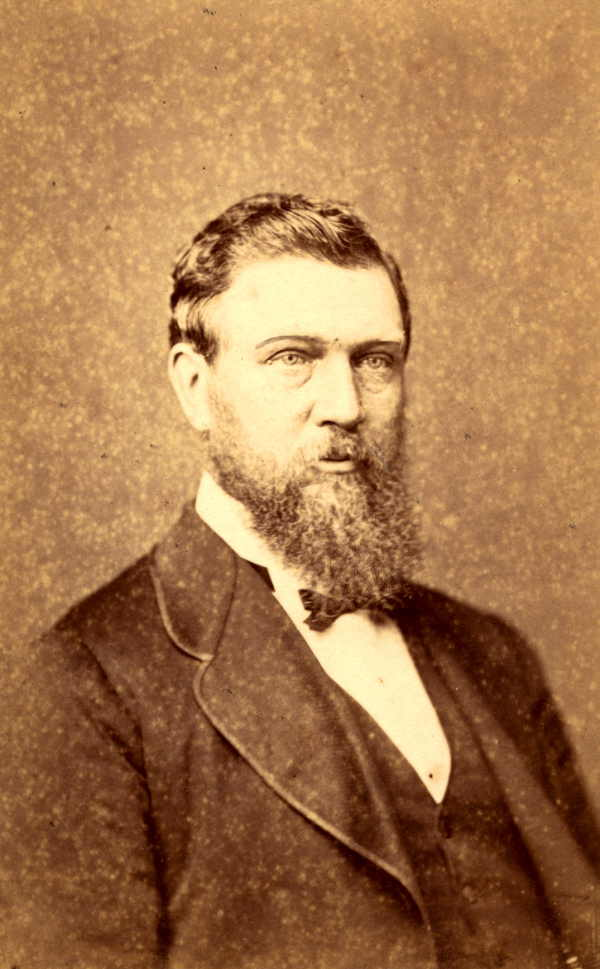 Dr Andrew Sexton Gray, an Irish surgeon who emigrated to the Colony of Victoria and founded the Royal Eye and Ear Hospital in Melbourne.